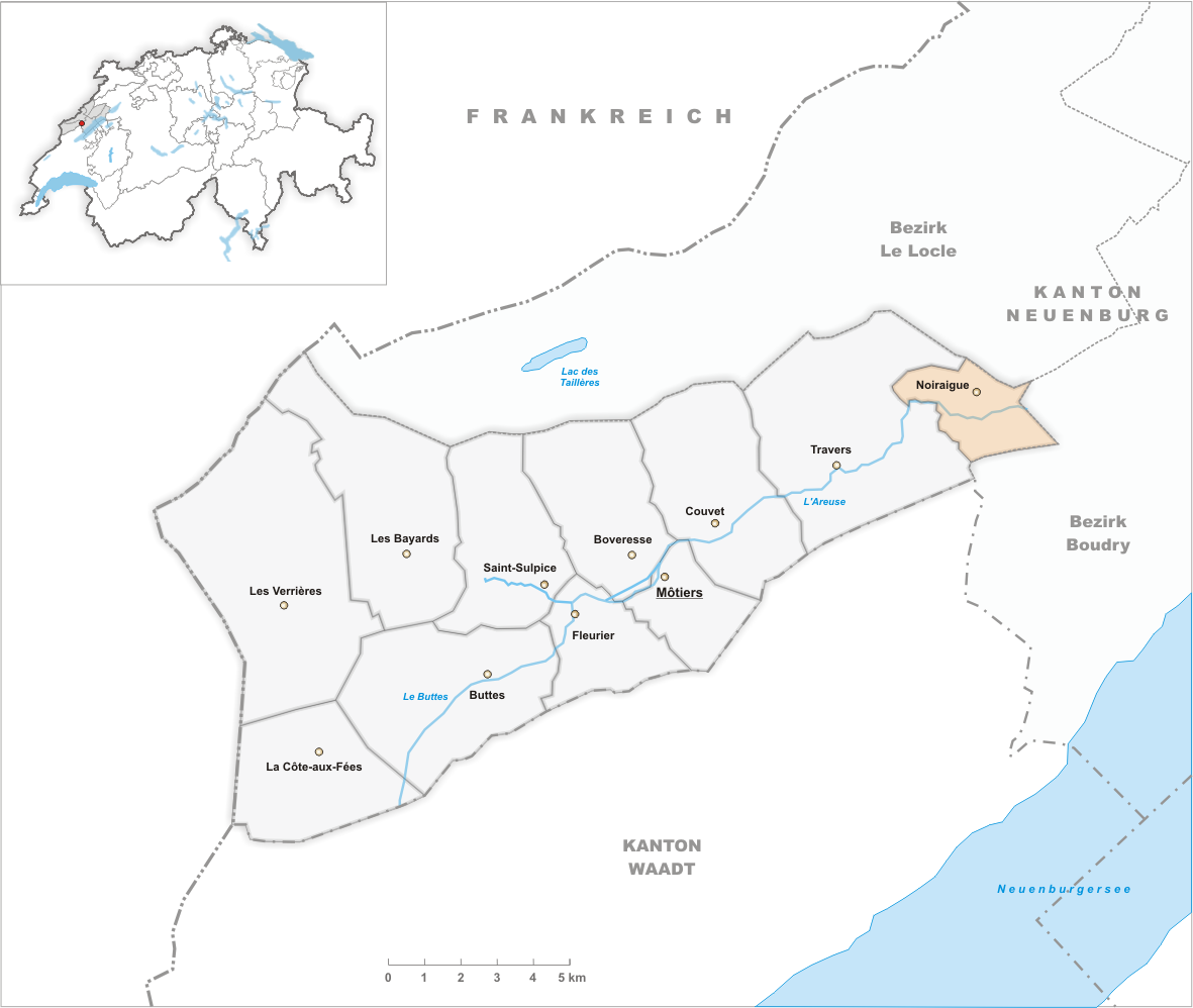 Municipality Noiraigue